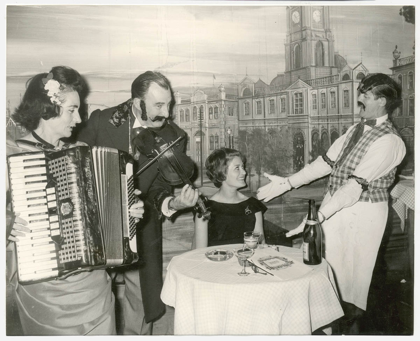 Format: Photograph Notes: Find more detailed information about this photographic collection: .au/item/itemDetailPaged.aspx?itemID=401887 Search for more great images in the State Library's collections: .au/search/SimpleSearch.aspx From the collection of the State Library of New South Wales